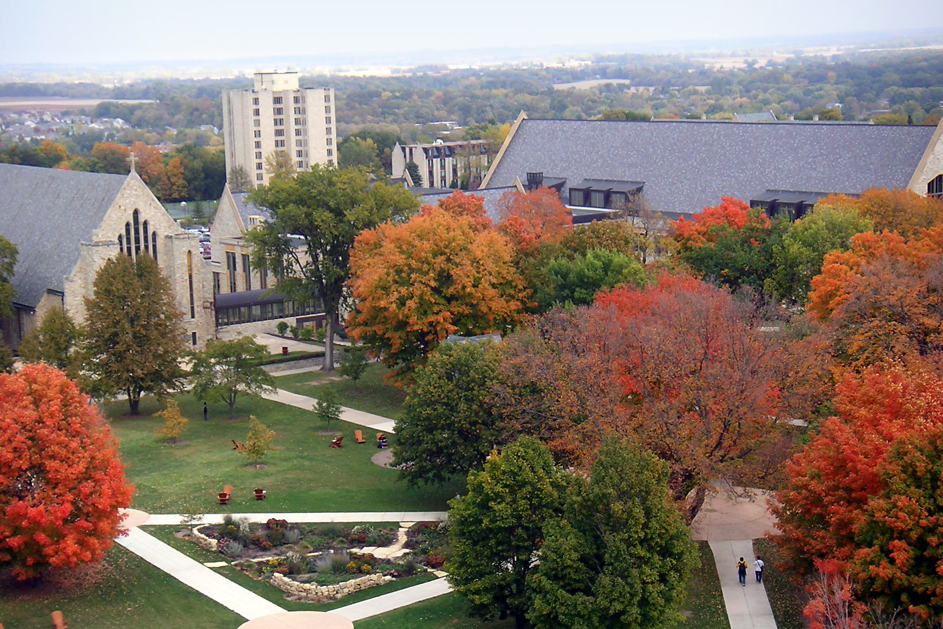 Campus of St. Olaf College, at Northfield, Minnesota, United States. Taken from the top of Larson Hall.